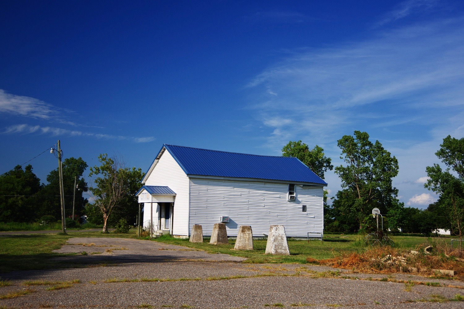 Wardell Lodge #157 (Prince Hall F&AM) in Homestown, Missouri, United States.